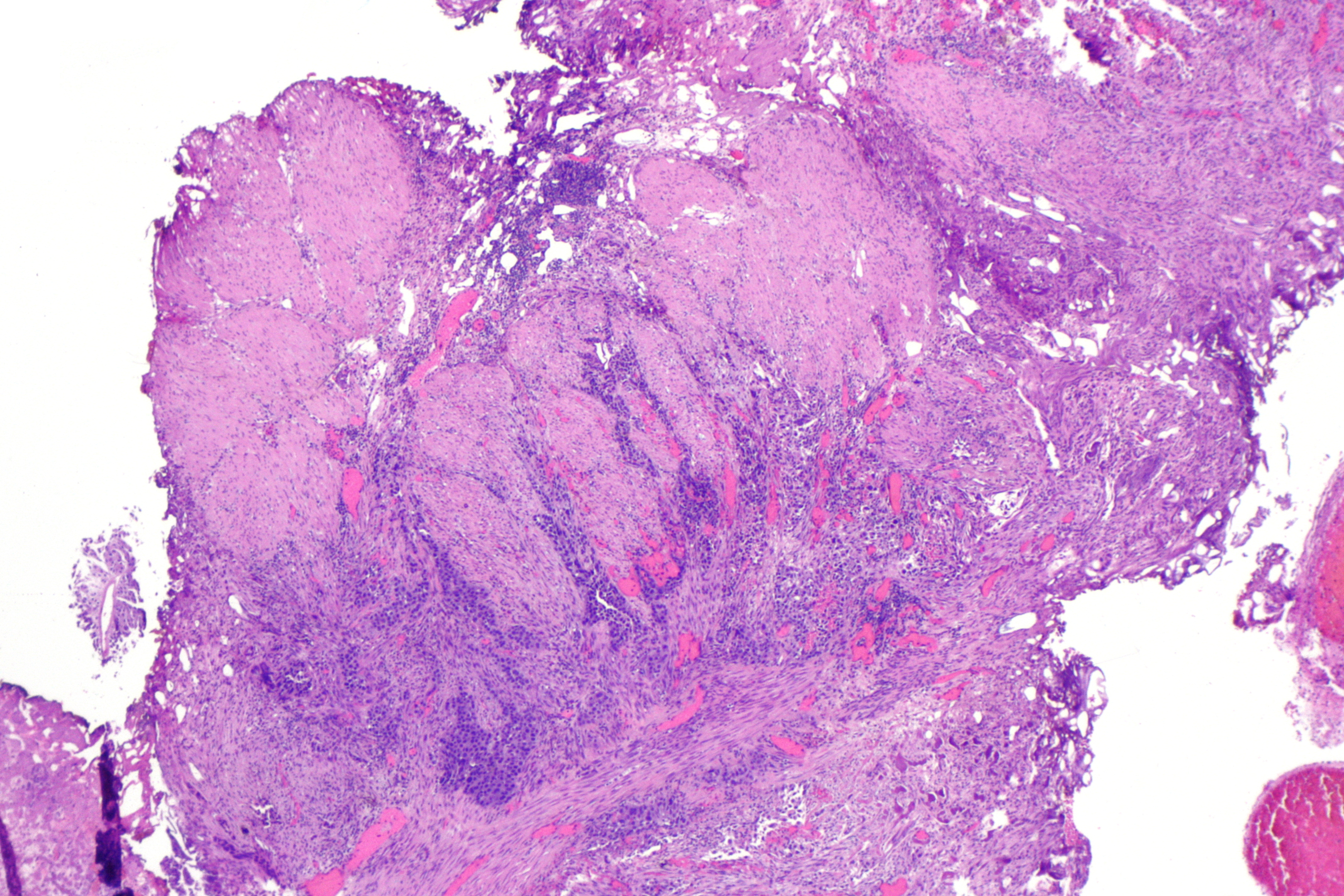 Micrograph showing muscle invasion urothelial carcinoma. H&E stain. Related images MIUC - very low mag. MIUC - low mag. MIUC - intermed. mag. MIUC - intermed. mag. MIUC - high mag. Papillary UC - low mag. Papillary UC - intermed. mag. Papillary UC - intermed. mag.